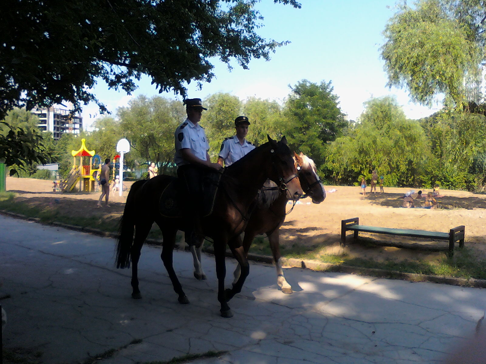 Several Moldavian police officers riding on horseback through a Botanica park.